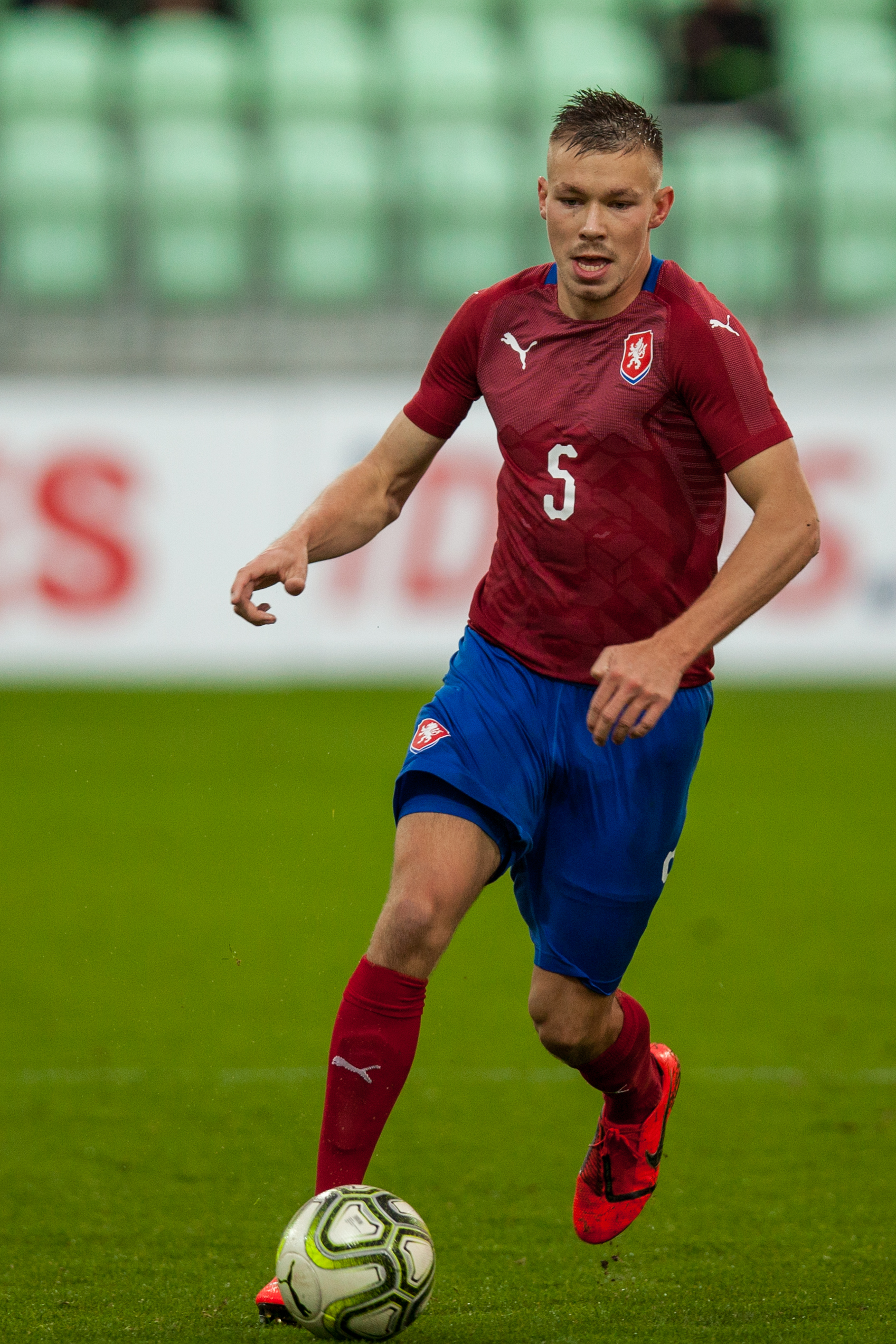 Dominik Plechatý in an internatinoal association football match of European Under-21 Championship Qualifying Round between the Czech Republic and Greece, Městský stadion Karviná, Karviná District, Moravian-Silesian Region, Czechia Personality rights warningAlthough this work is freely licensed or in the public domain, the person(s) shown may have rights that legally restrict certain re-uses unless those depicted consent to such uses. In these cases, a model release or other evidence of consent could protect you from infringement claims.